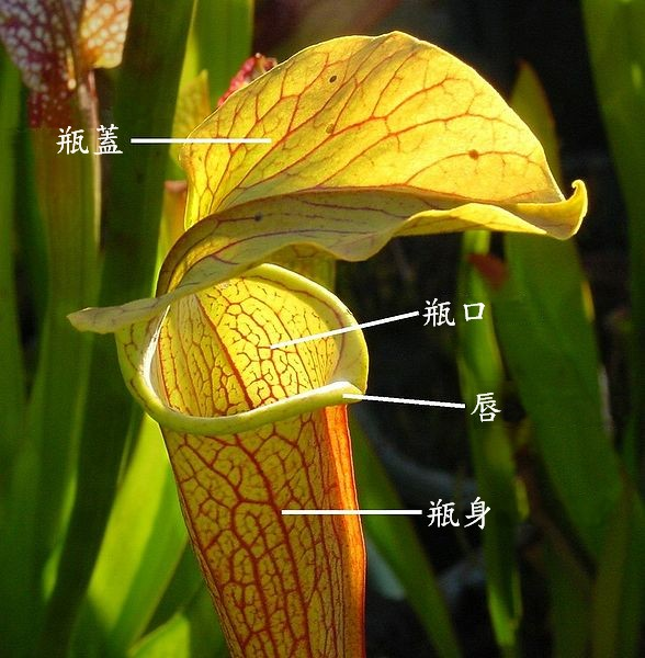 Sarracenia pitcher anatomy (S. "Hummer's Autumnal Splendor")